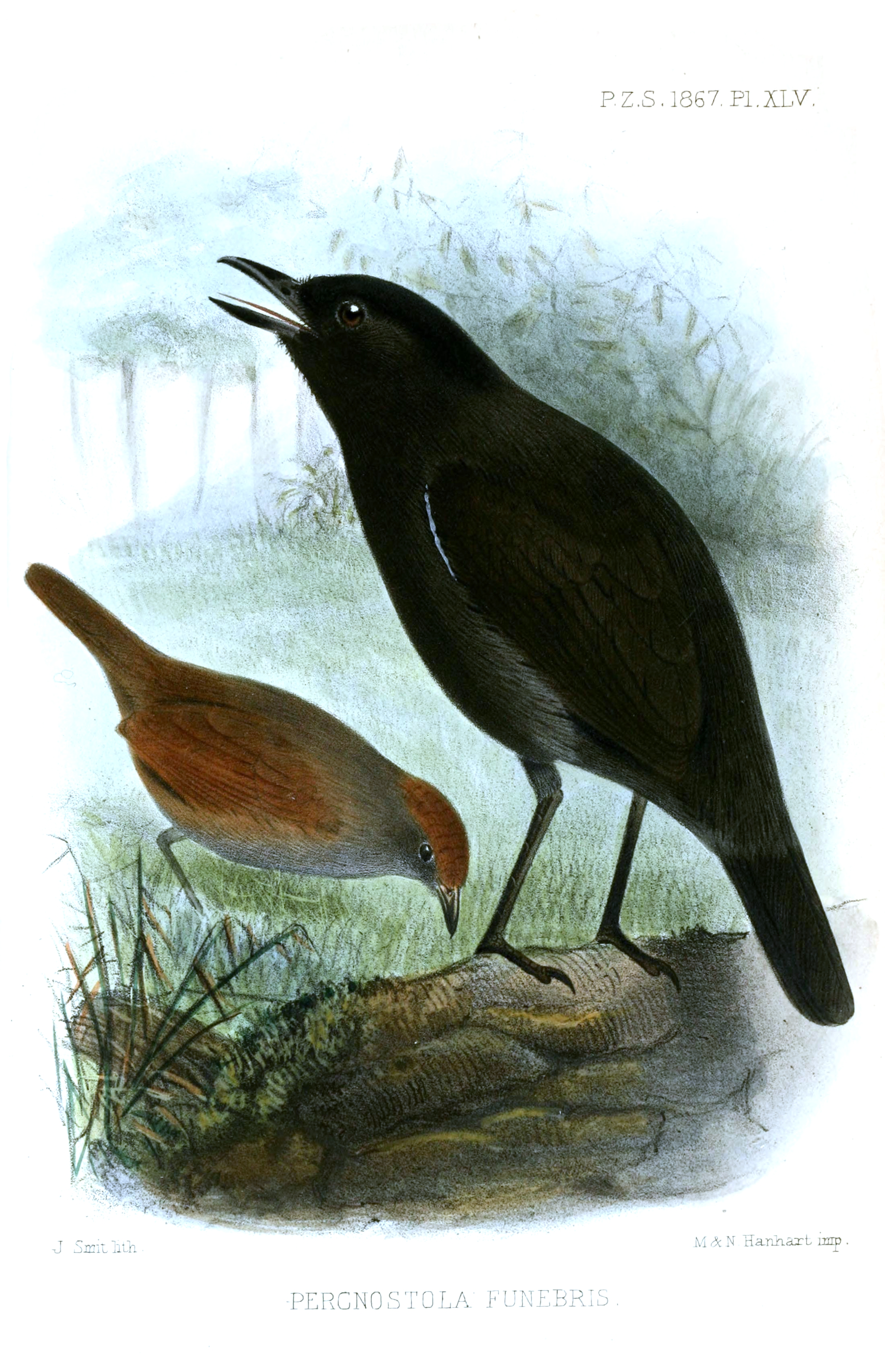 Sooty Antbird, adult male (right) and female (left)